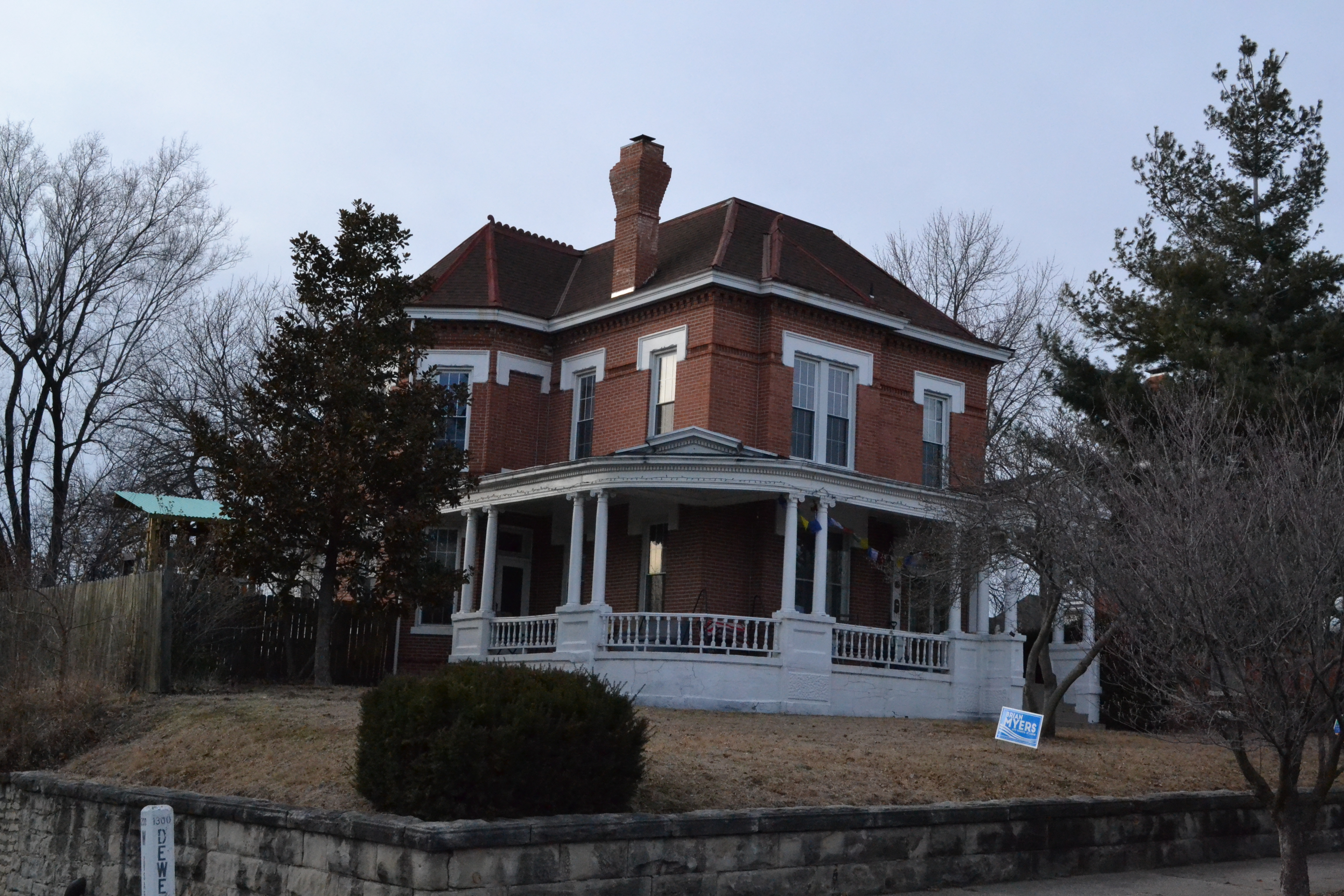 The Nowland House in St. Joseph, Missouri. Part of the Dewey Avenue-West Rosine Historic District.